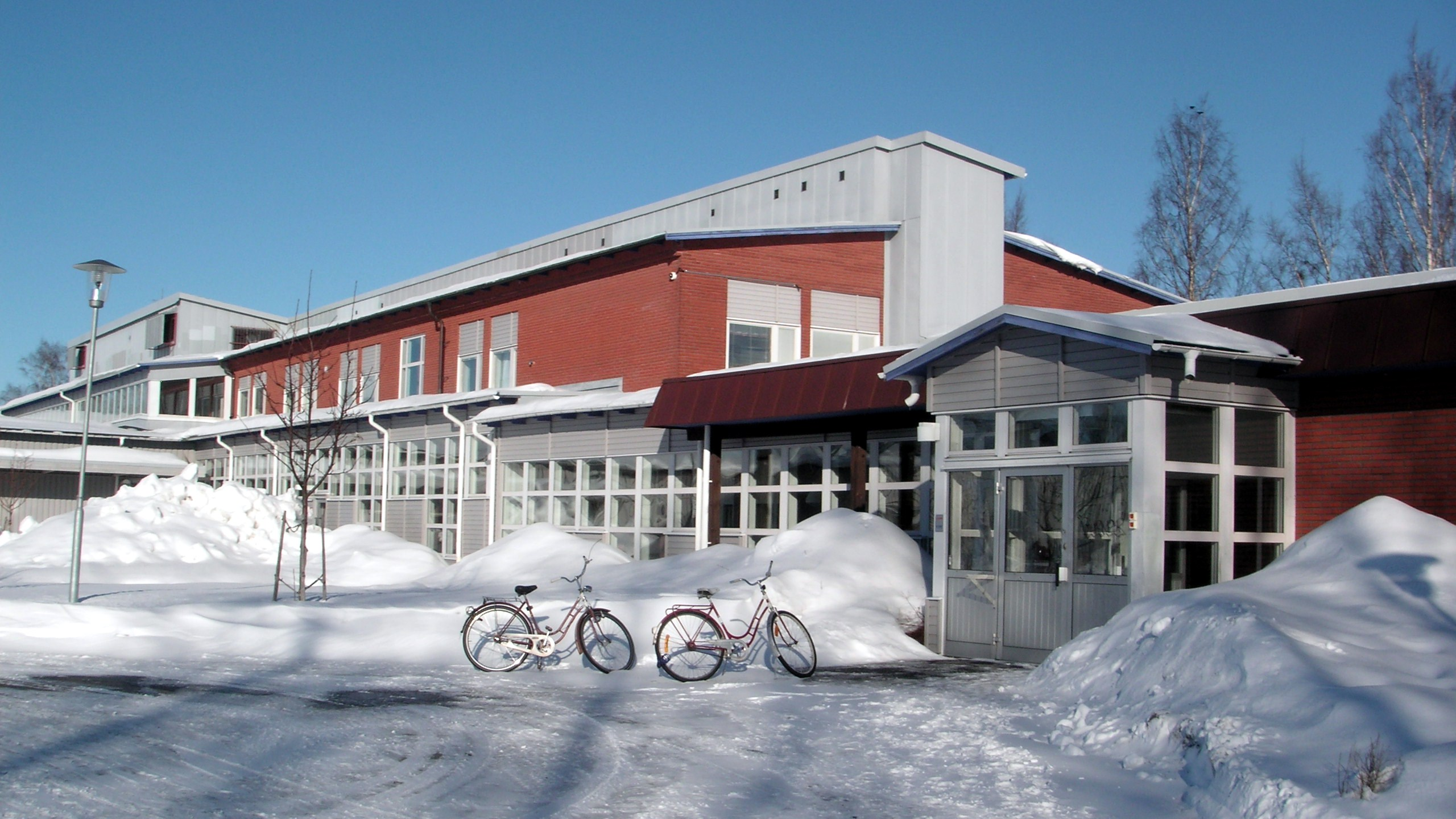 Grubbeskolan (Grubbe school) in western Umeå, Sweden.